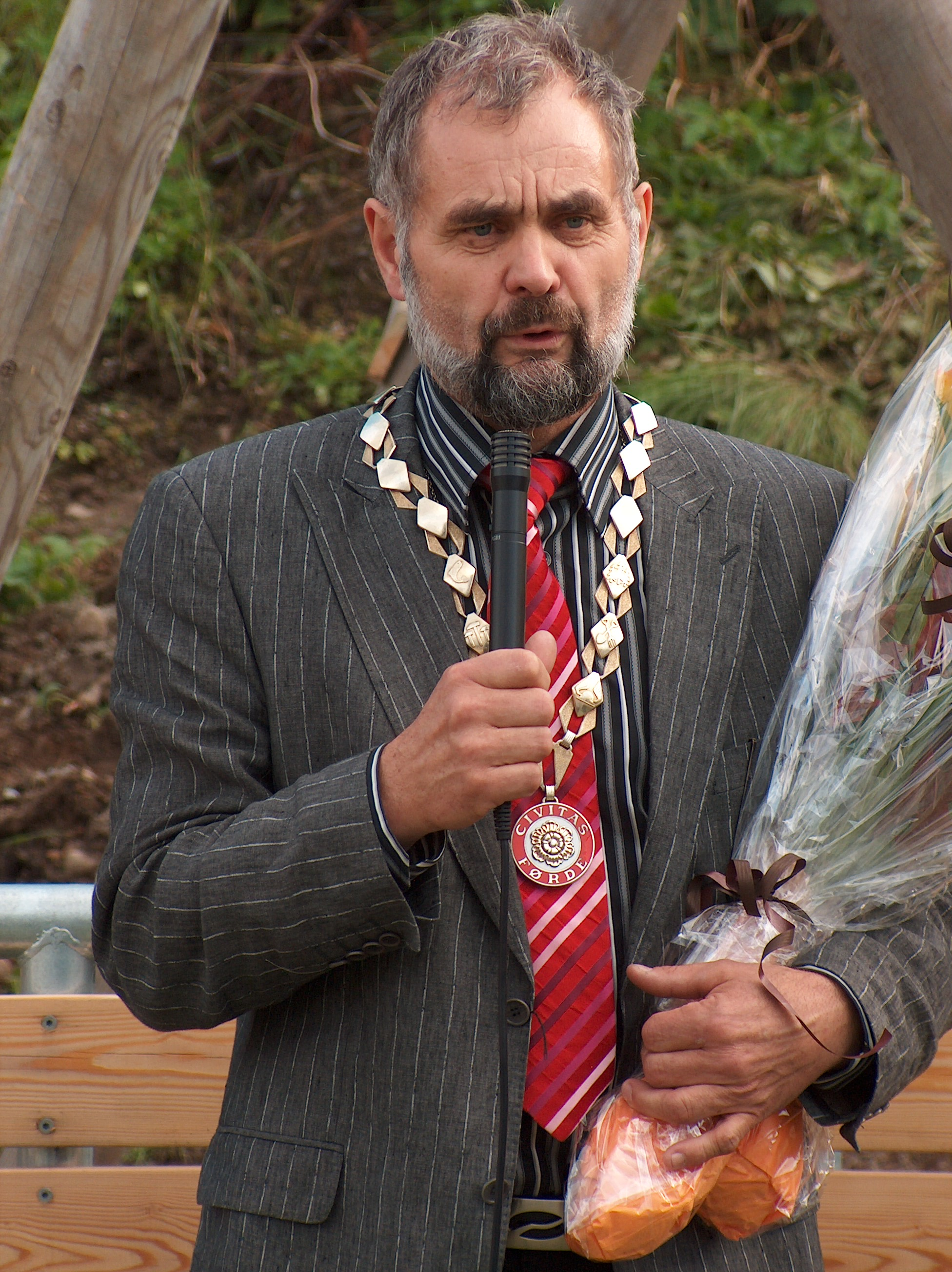 Nils Gjerland, chairman of Førde, Sogn og Fjordane, Norway.